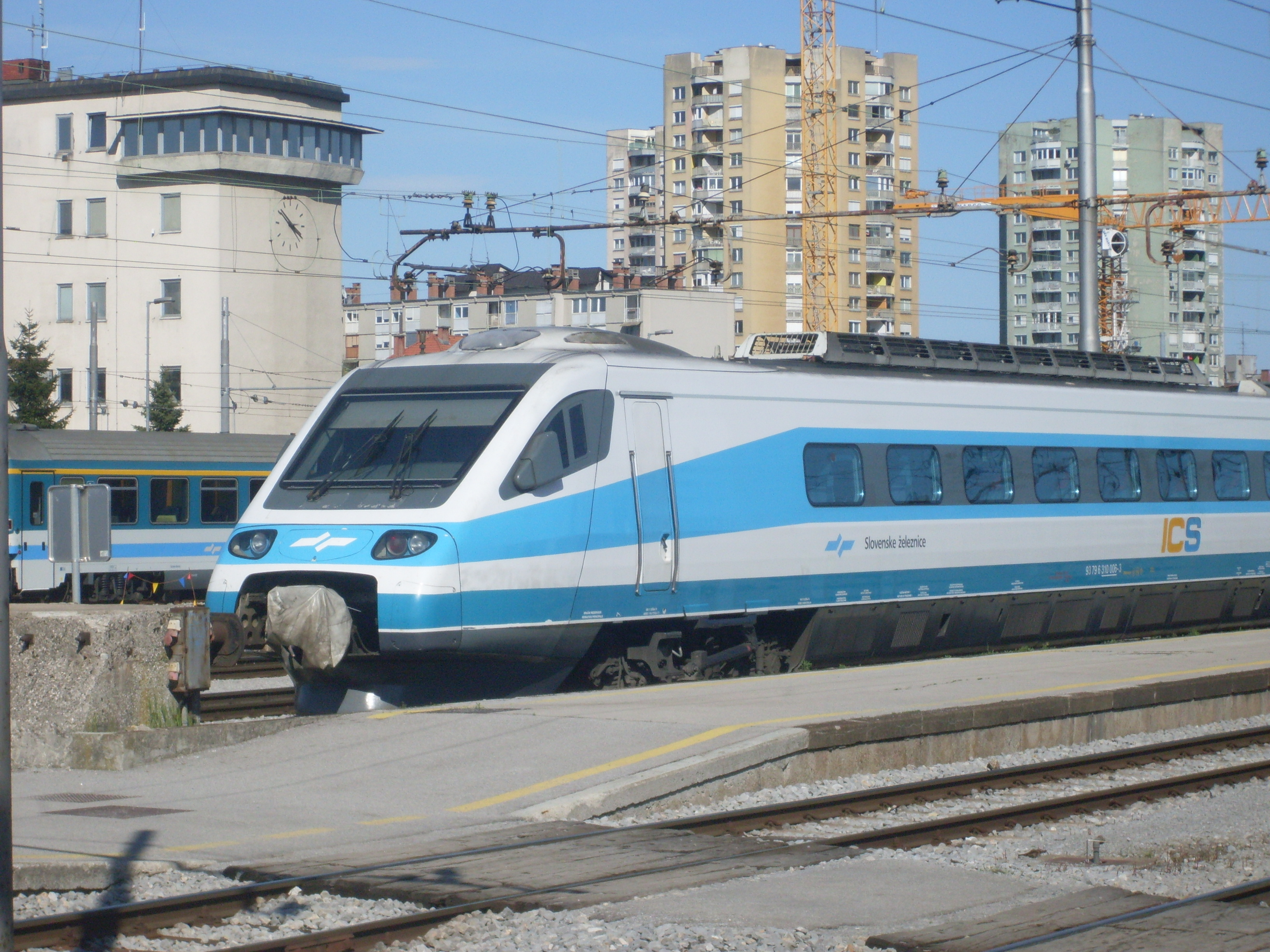 Front part of a high speed tilting electric multiple unit of SŽ class 310 (derived from Fiat Ferroviaria ETR 460). The popular nickname for these multiple units is pendolino. Manufacturer: Fiat Ferroviaria (Italy) Axle arrangement: (1A0)2´2´(A01) Voltage: 3 kV DC Power: 2000 kW Max. speed: 200 km/h Weight: 152 t Length: 81.2 m Width: 2.8 m Height: 3.73 m Axle load: 14 t/13.3 t Diameter of new wheels: 890 mm Minimum curve radius: 250 m Nr. of coupled trains: 3 Nr. of passenger seats: 30 (1st class) + 134 second class + 2 (for disabled) The photo of this SŽ310-006 part was taken at the Ljubljana train station. About the class 310.